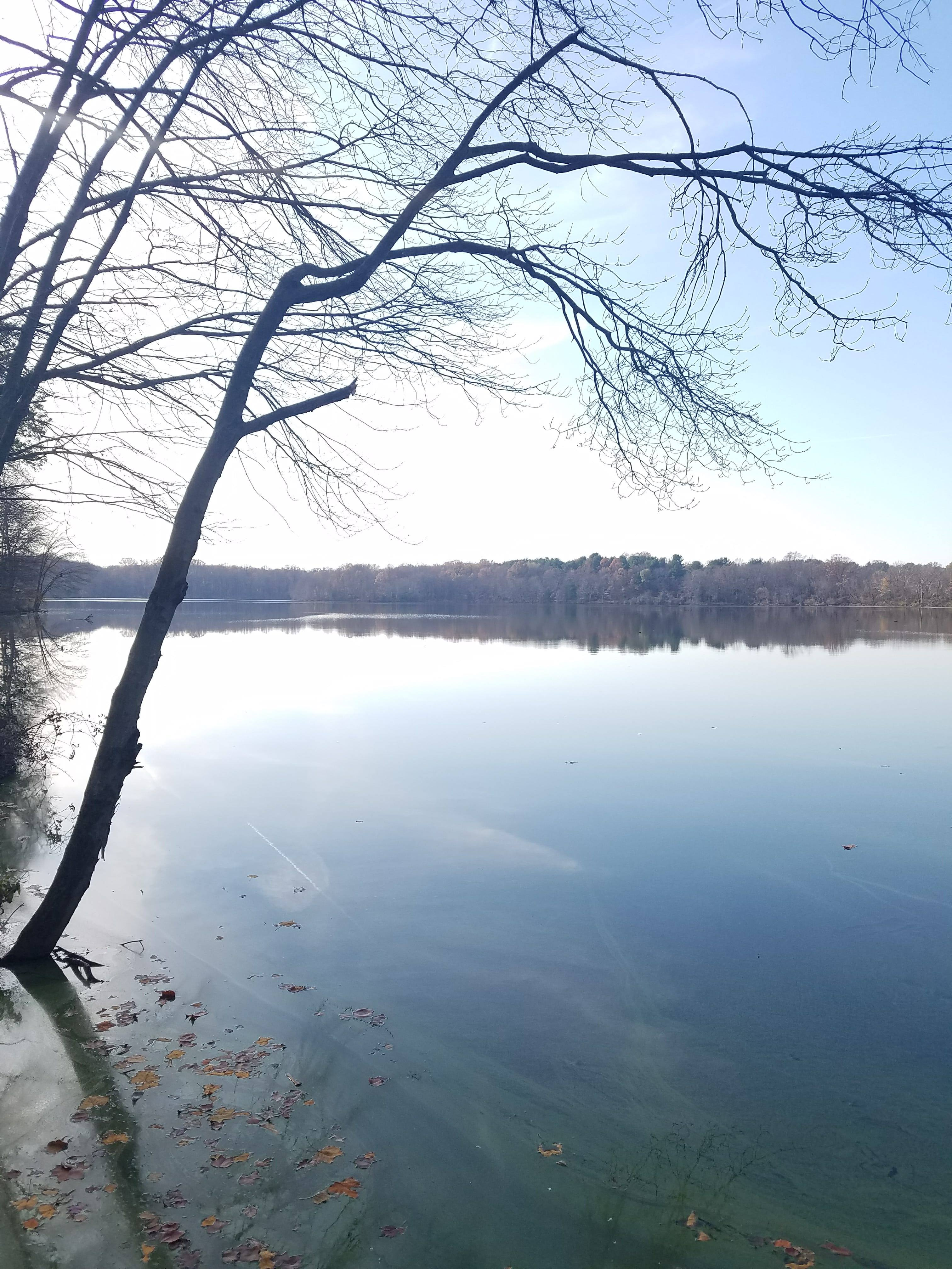 Churchville Reservoir taken from the trail platform at Churchville Nature Center in Bucks County, Pa